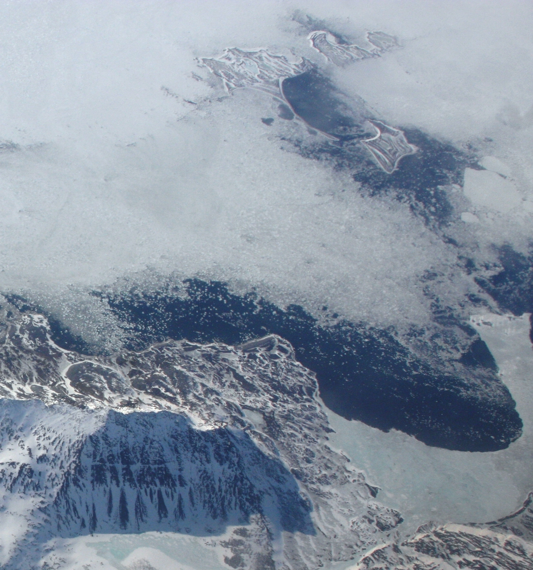 Dunøyane and Dunøysund, outside the coast of Wedel Jarlsberg Land, Svalbard.